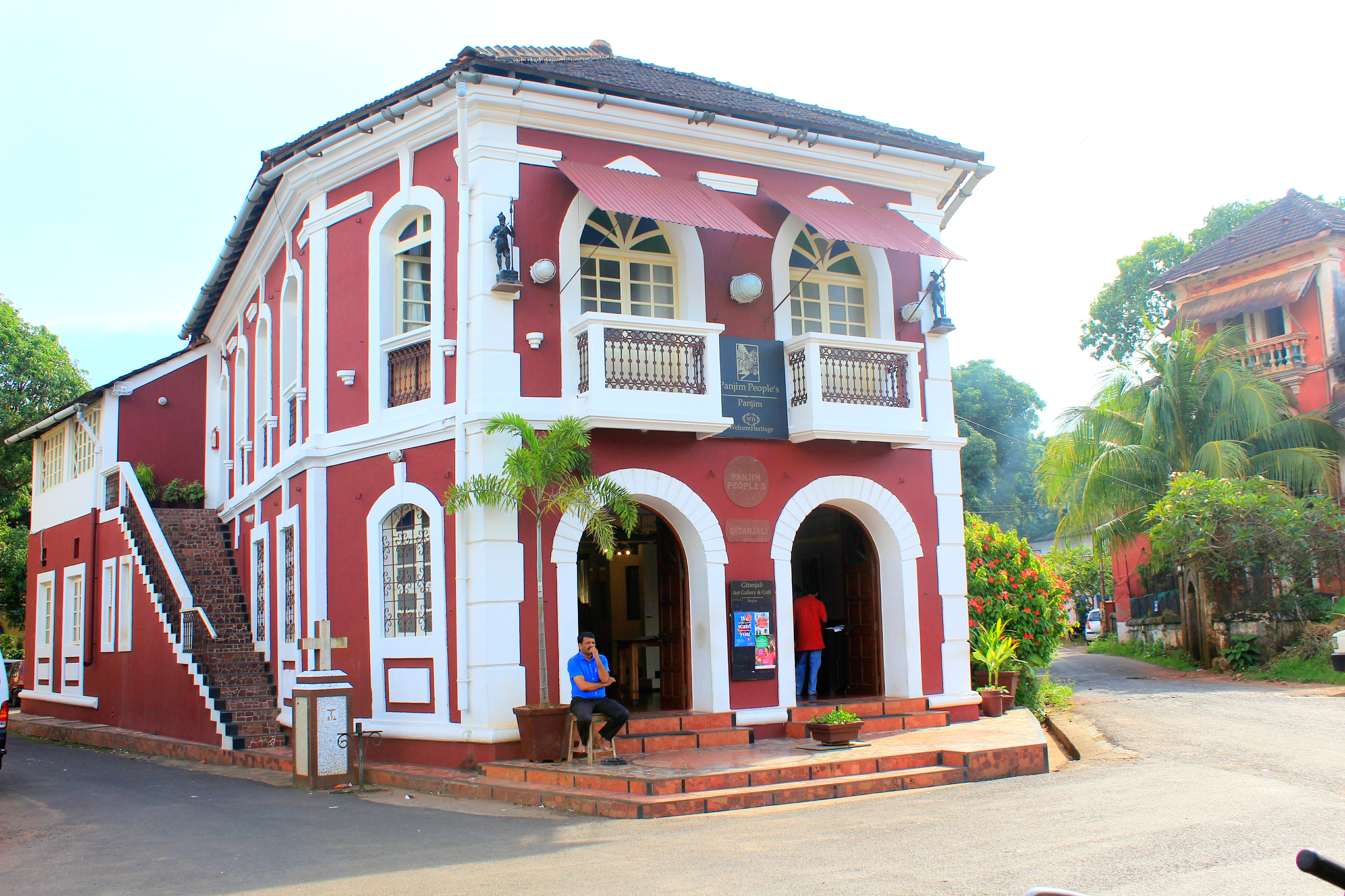 A mixture of art and literature.. A blend of Portuguese and Goan.. Gitanjali Art Gallery Fontainhas, Panajim - Goa